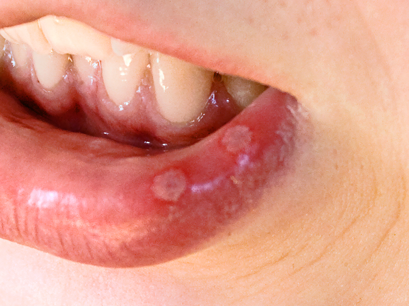 Two mid-size (approx. 3mm in diameter) aphthous ulcers on lower lip. Medical name: stomatitis aphthosa.